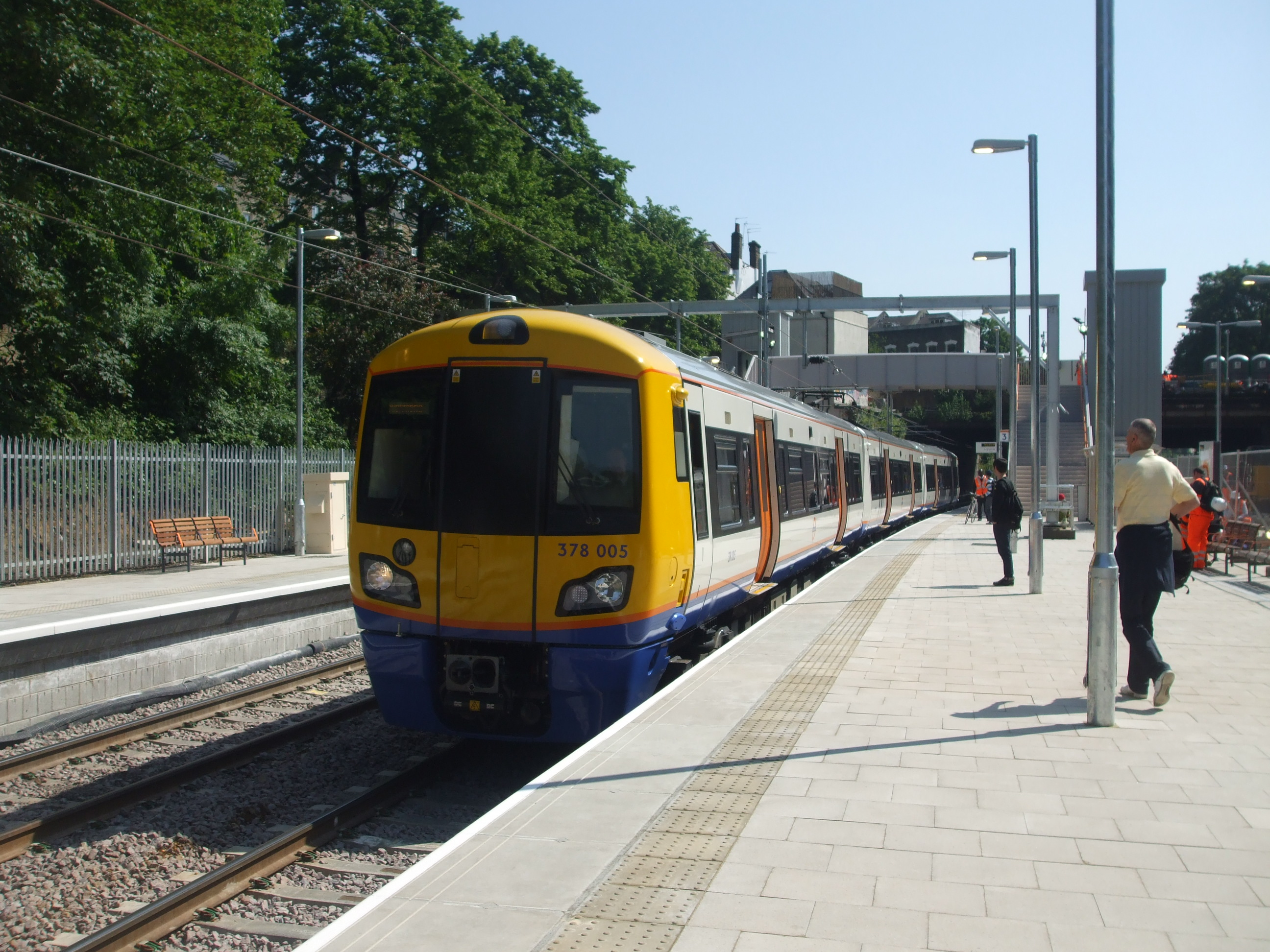 Class 378 unit 378005 calls at Canonbury with a Richmond train in June 2010.